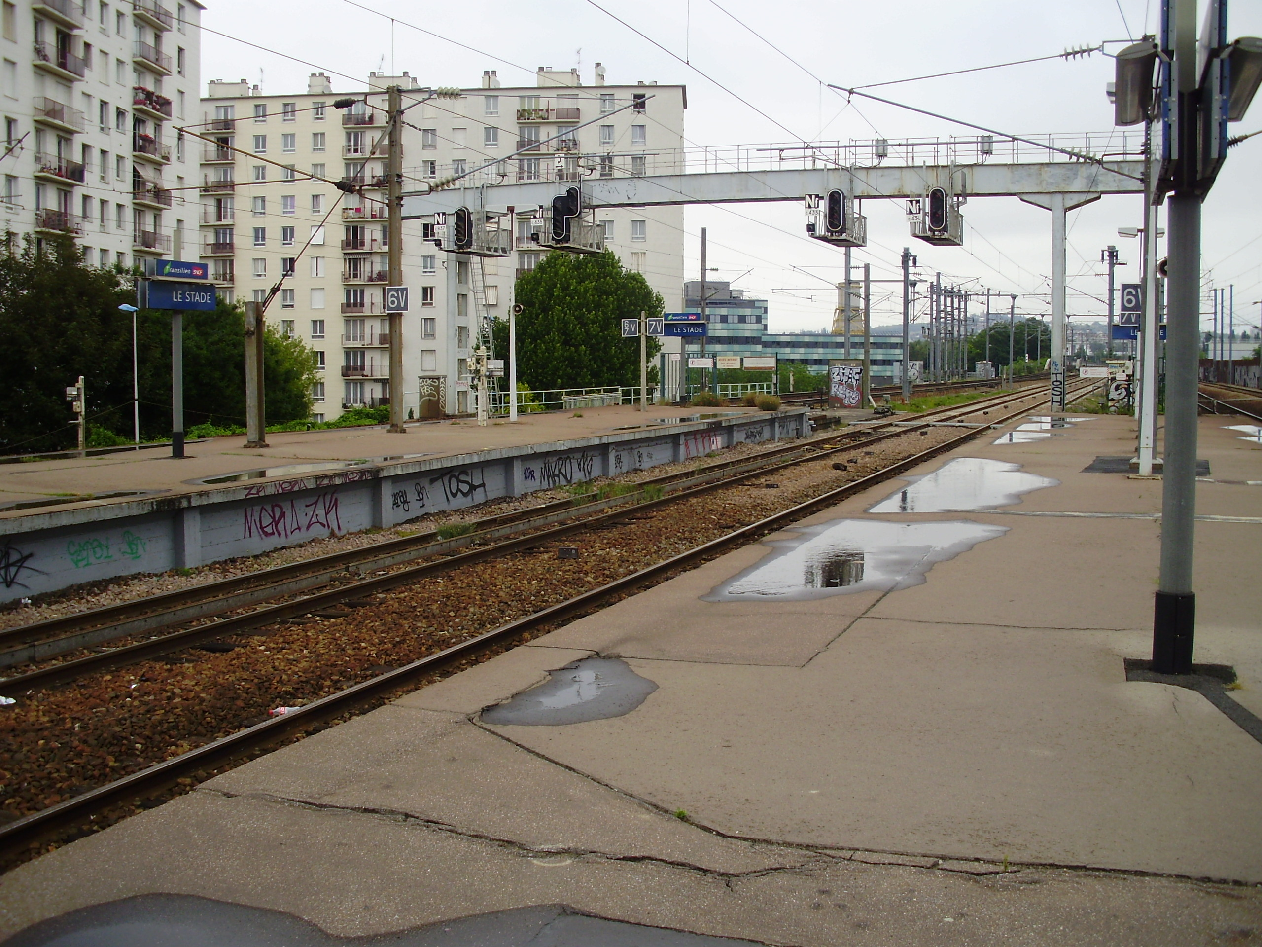 Le Stade station, in Colombes, Hauts-de-Seine, France (Looking north towards Argenteuil)